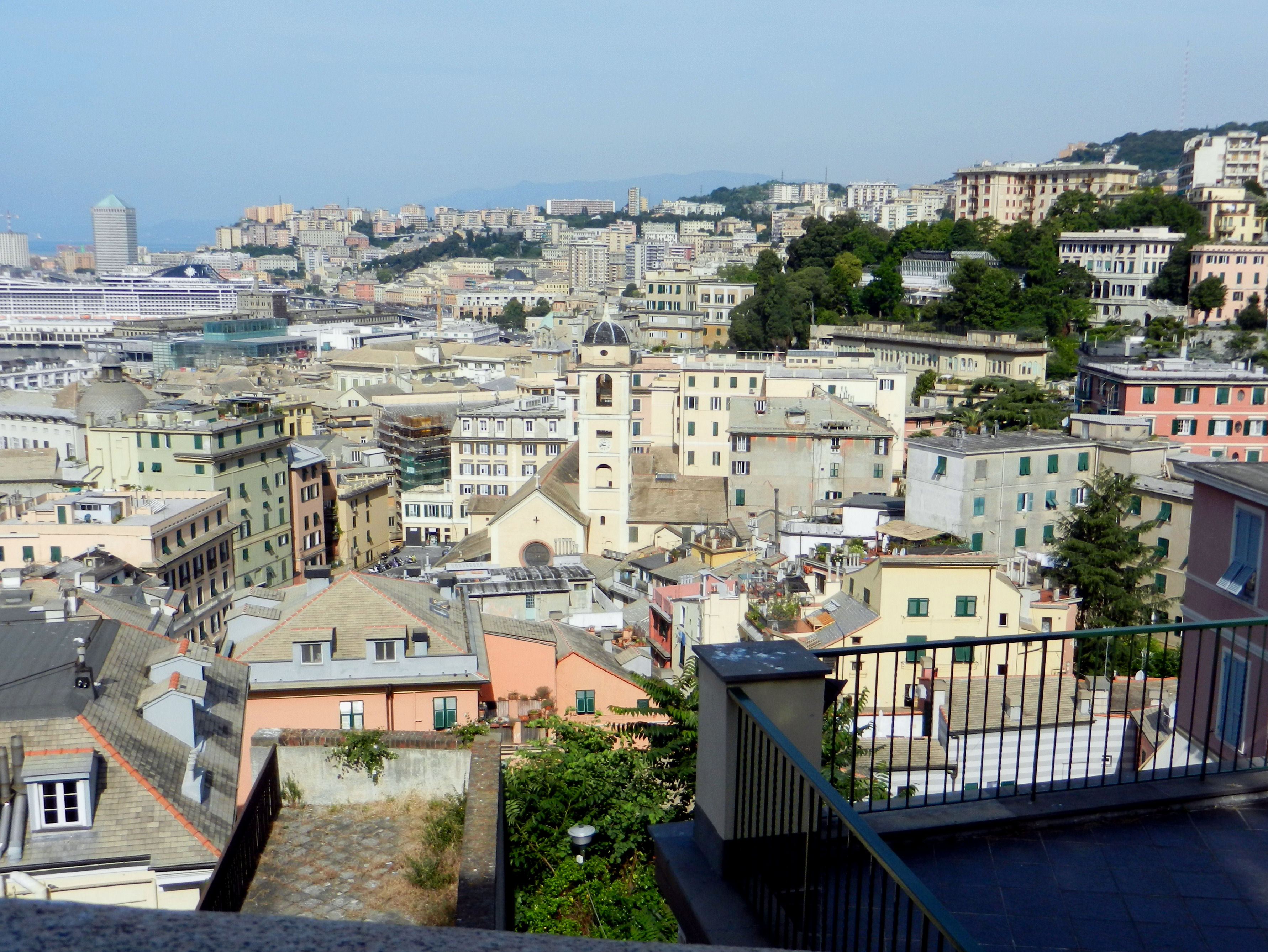 Genoa, Italy, quarter of Prè, view of the Carmine from Carbonara avenue